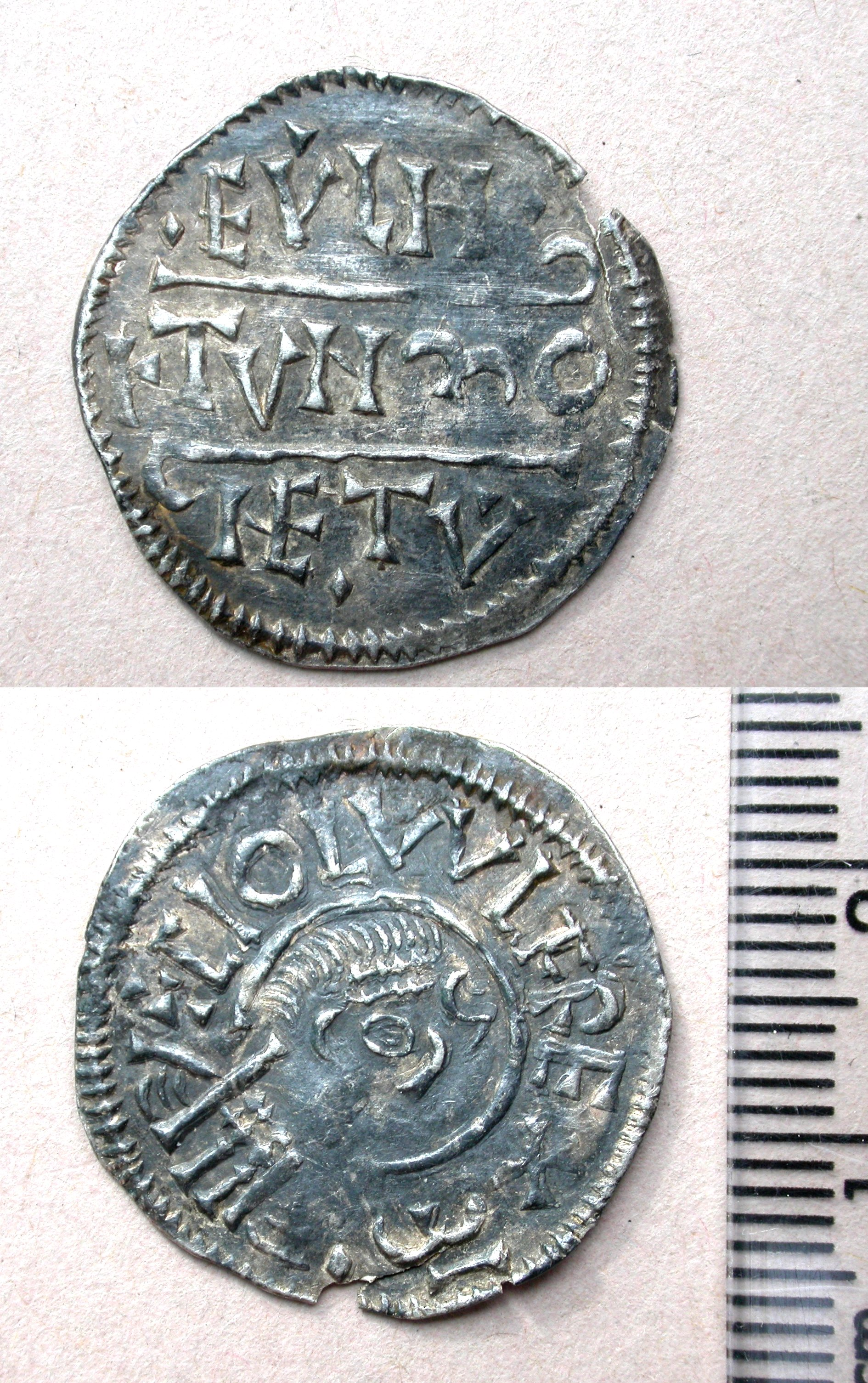 Silver, penny, Coelwulf I of Mercia (821-3), North 387, Mint: Rochester, moneyer: Ealhstan, North 1994, p.96